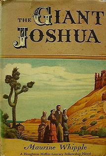 Cover of the first edition of Maurine Whipple's The Giant Joshua (1942)